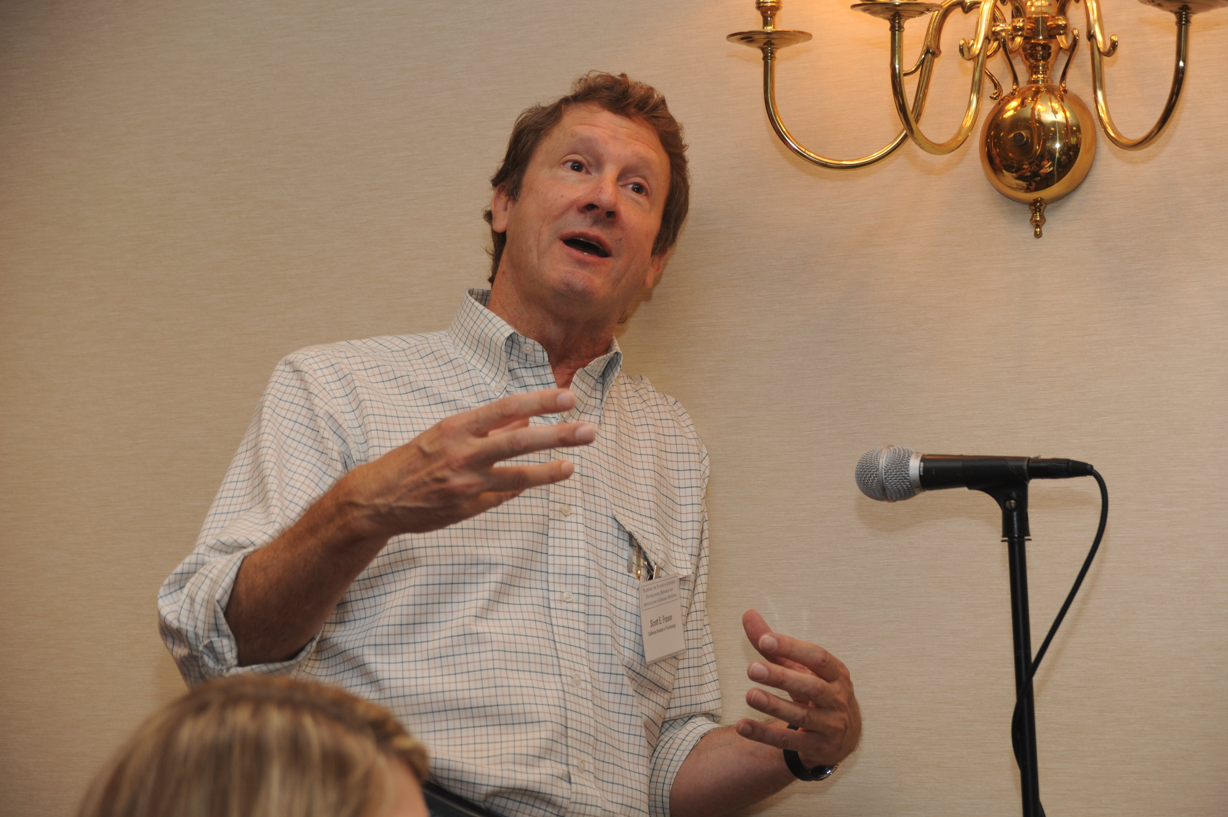 American biologist Scott E. Fraser at an event on "Planning the Future of Genomics" in the Airlie Conference Center of Warrenton, VA.